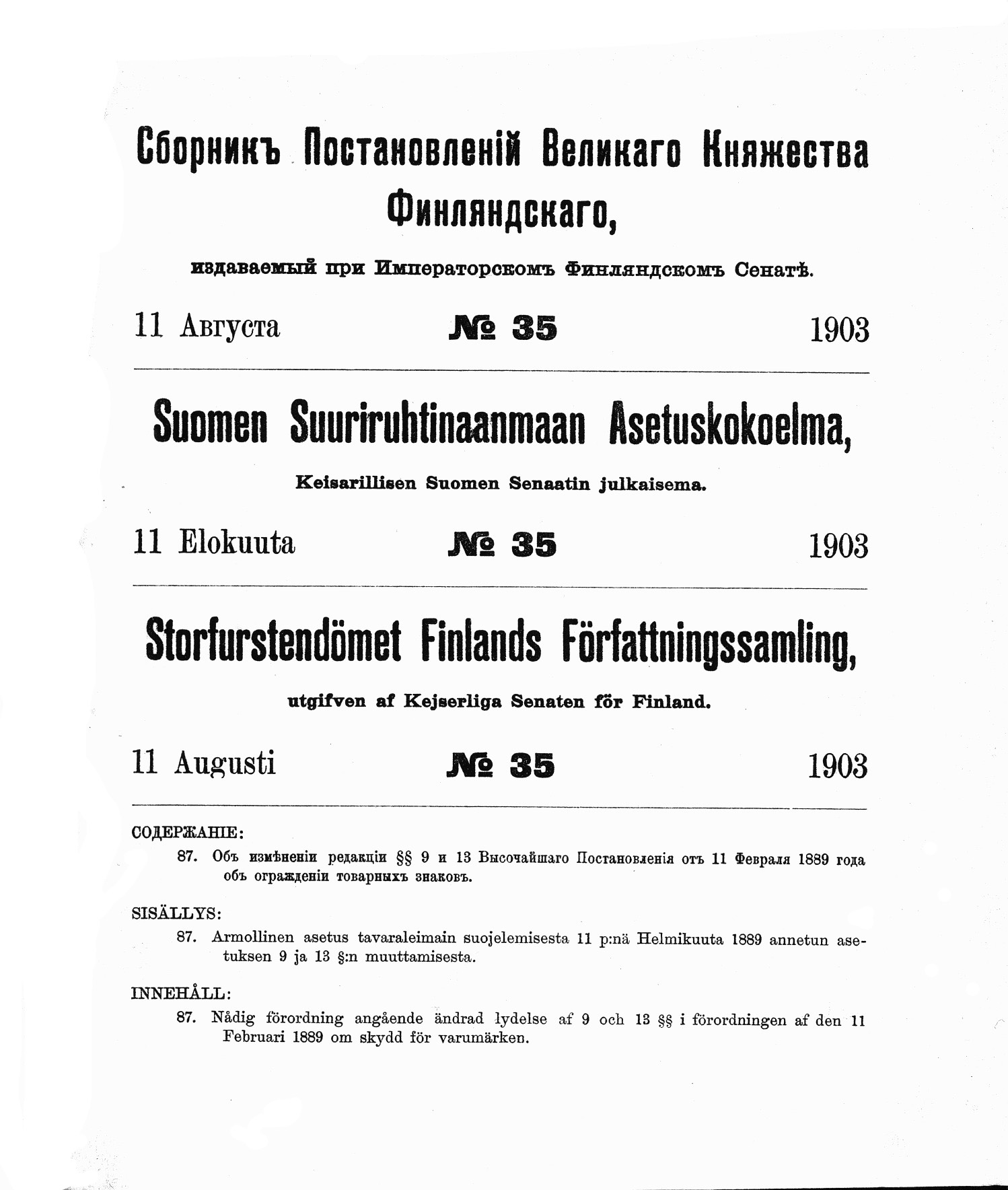 Sample page from the trilingual Law Collection (Russian–Finnish–Swedish) from 1903